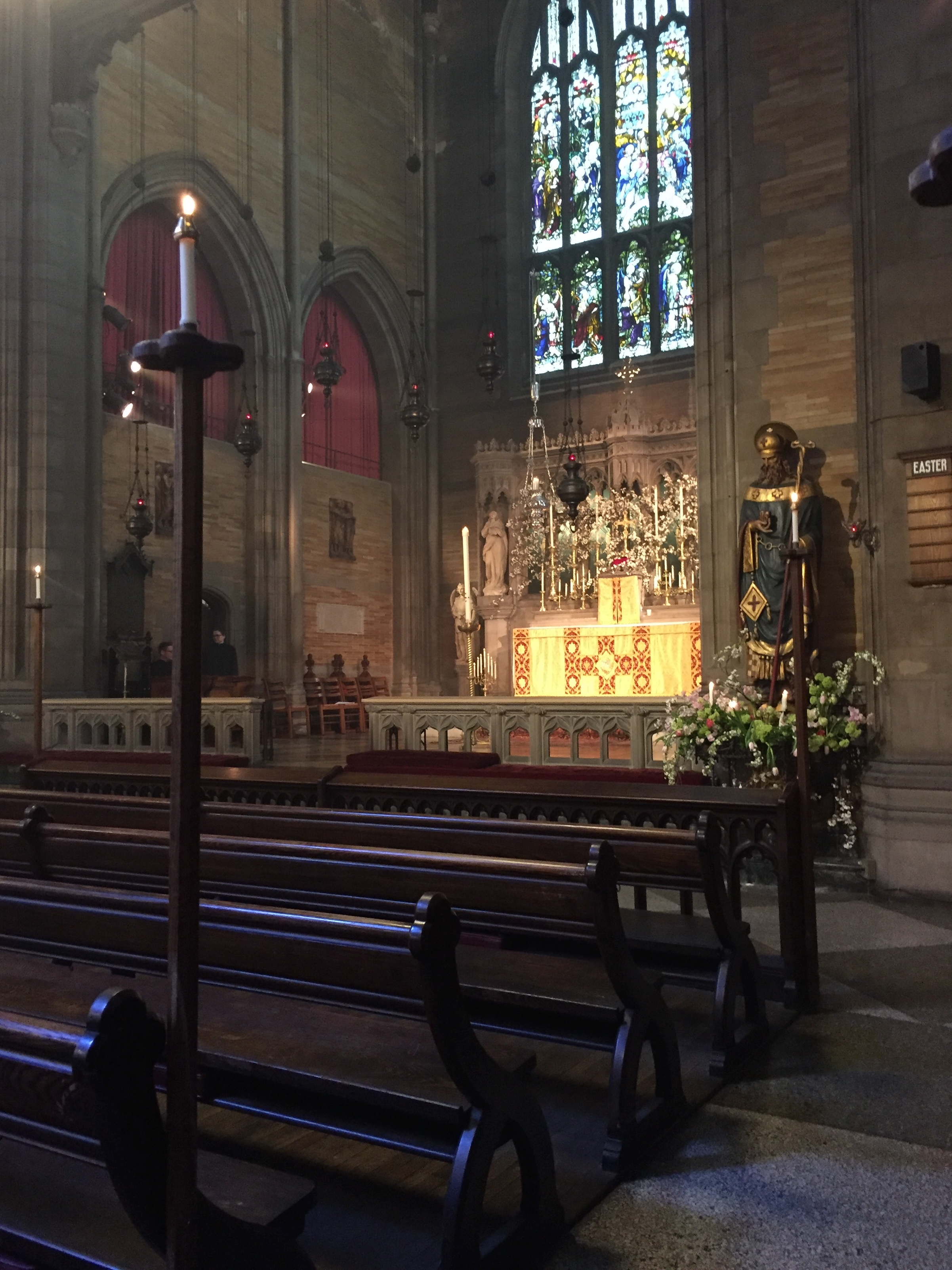 St. Ignatius of Antioch Episcopal Church, New York. View towards high altar taken at Easter 2017.